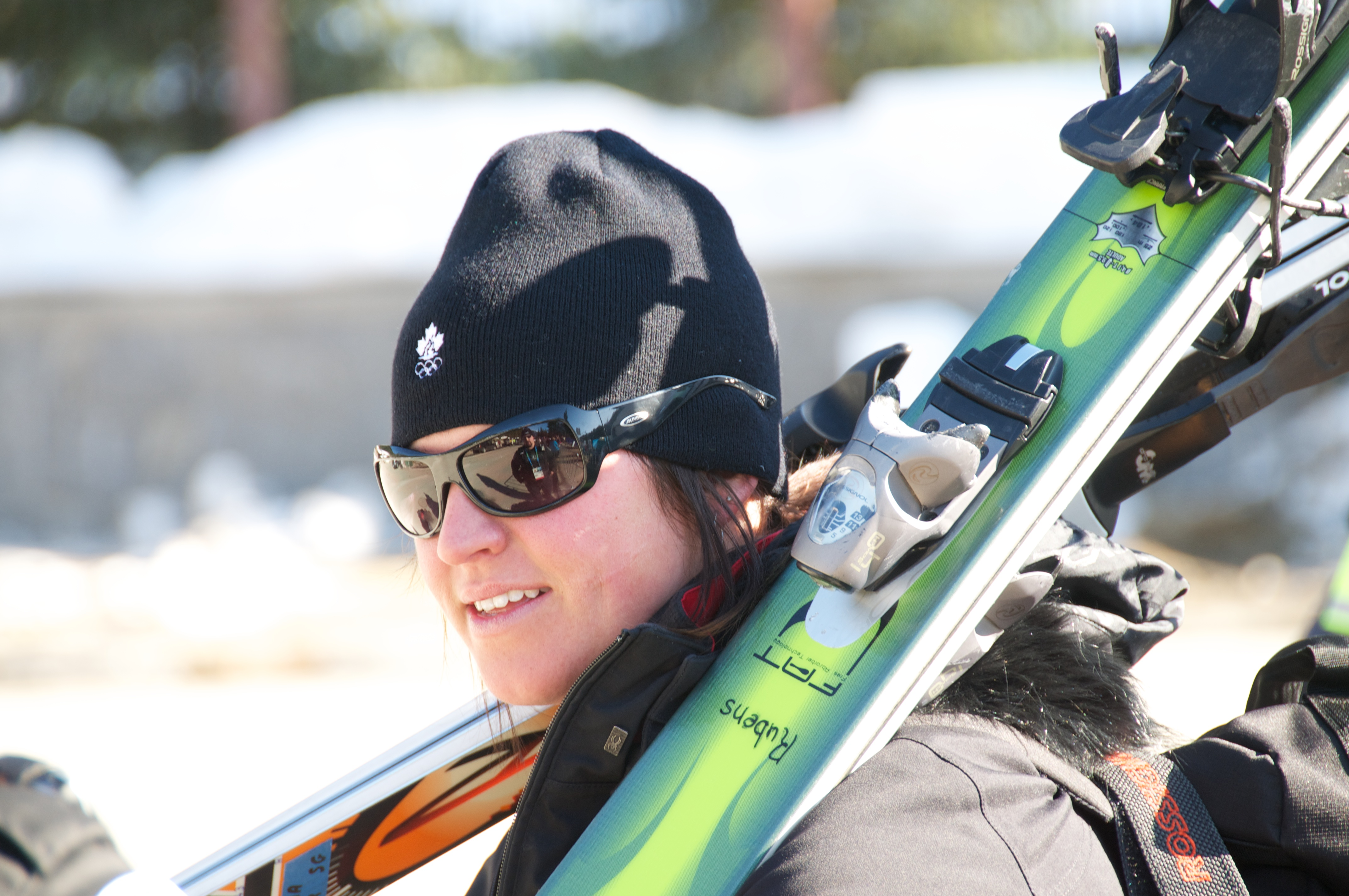 Day 8 of the Vancouver 2010 Winter Olympics at Super G at Whistler Creekside.